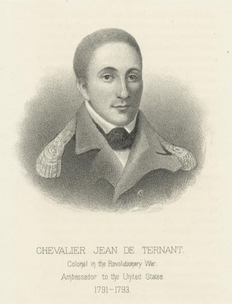 Portrait of Jean-Baptiste de Ternant, French ambassdor to the United States 1791-93.